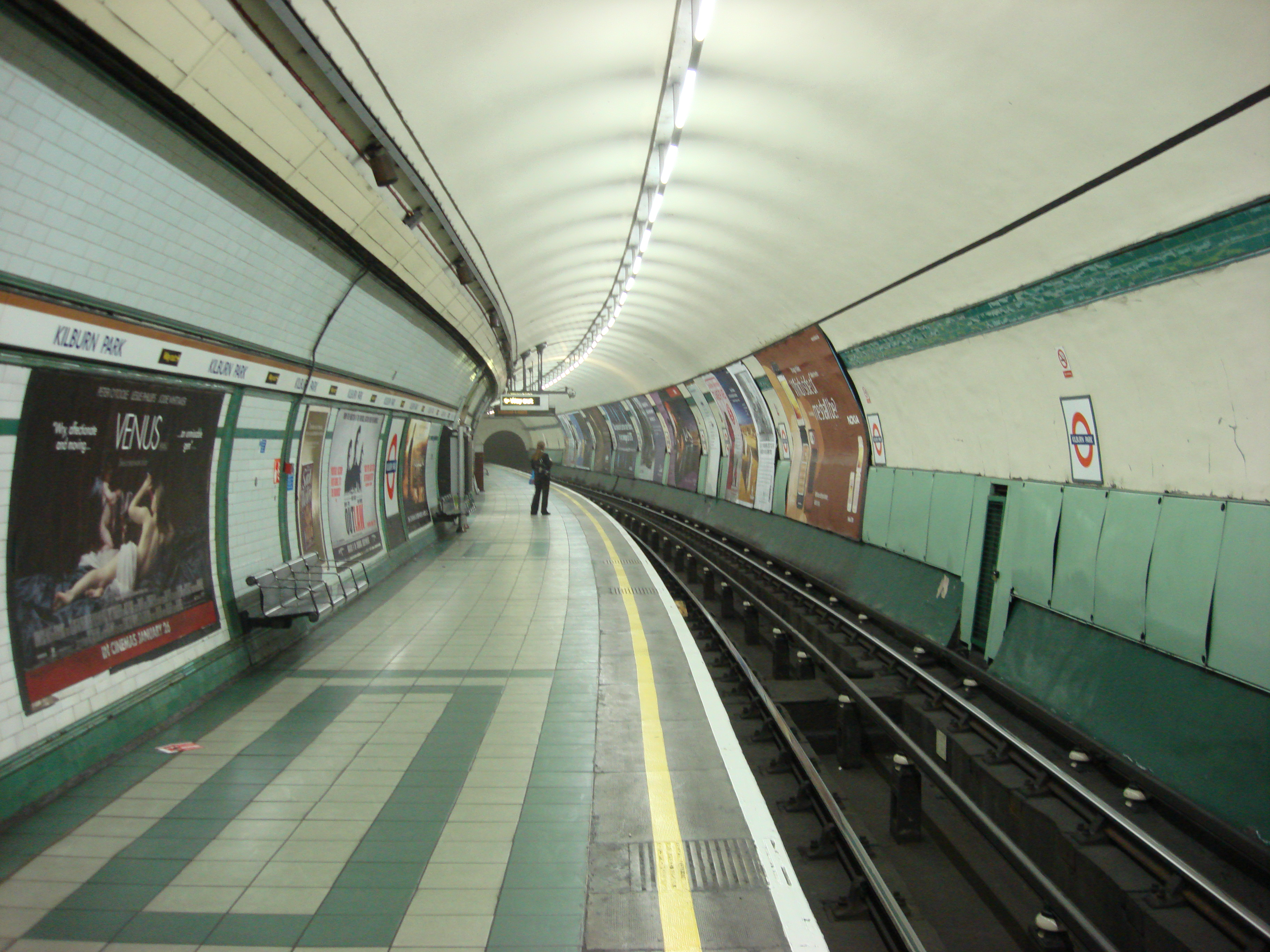 The southbound platform of Kilburn Park tube station